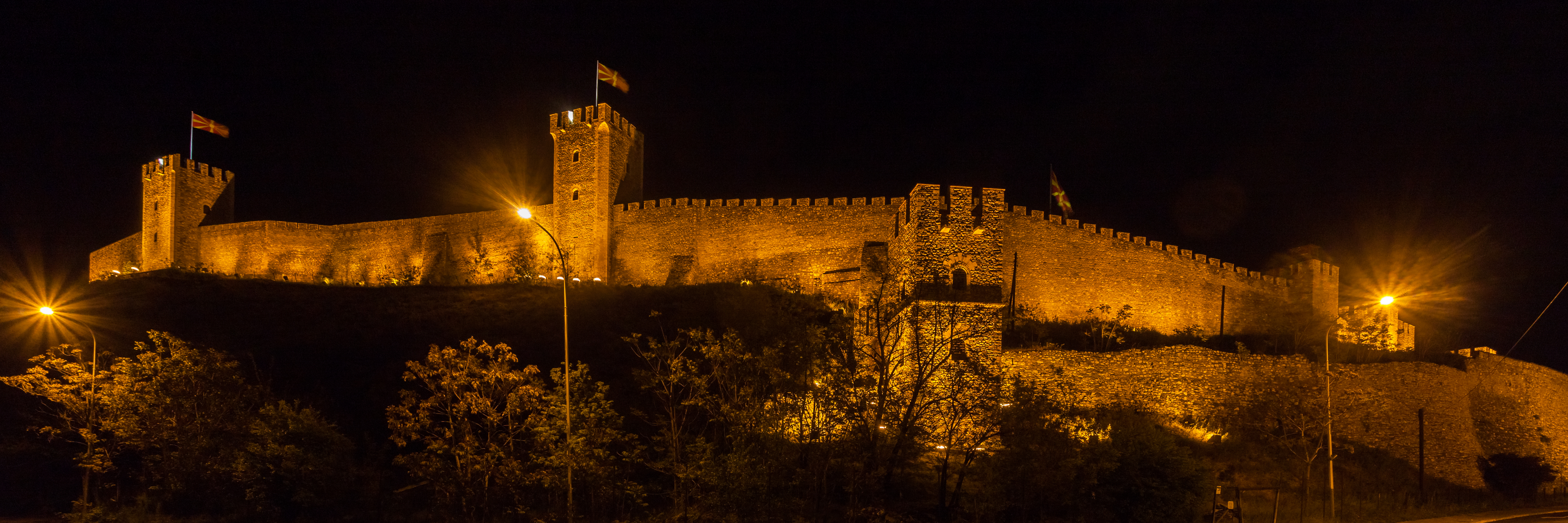 Skopje Fortress, Macedonia